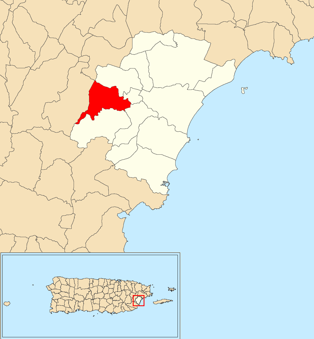 Tejas, Humacao, Puerto Rico locator map